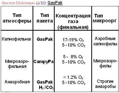 GasPak environmental conditions(interpolation on instruction base)